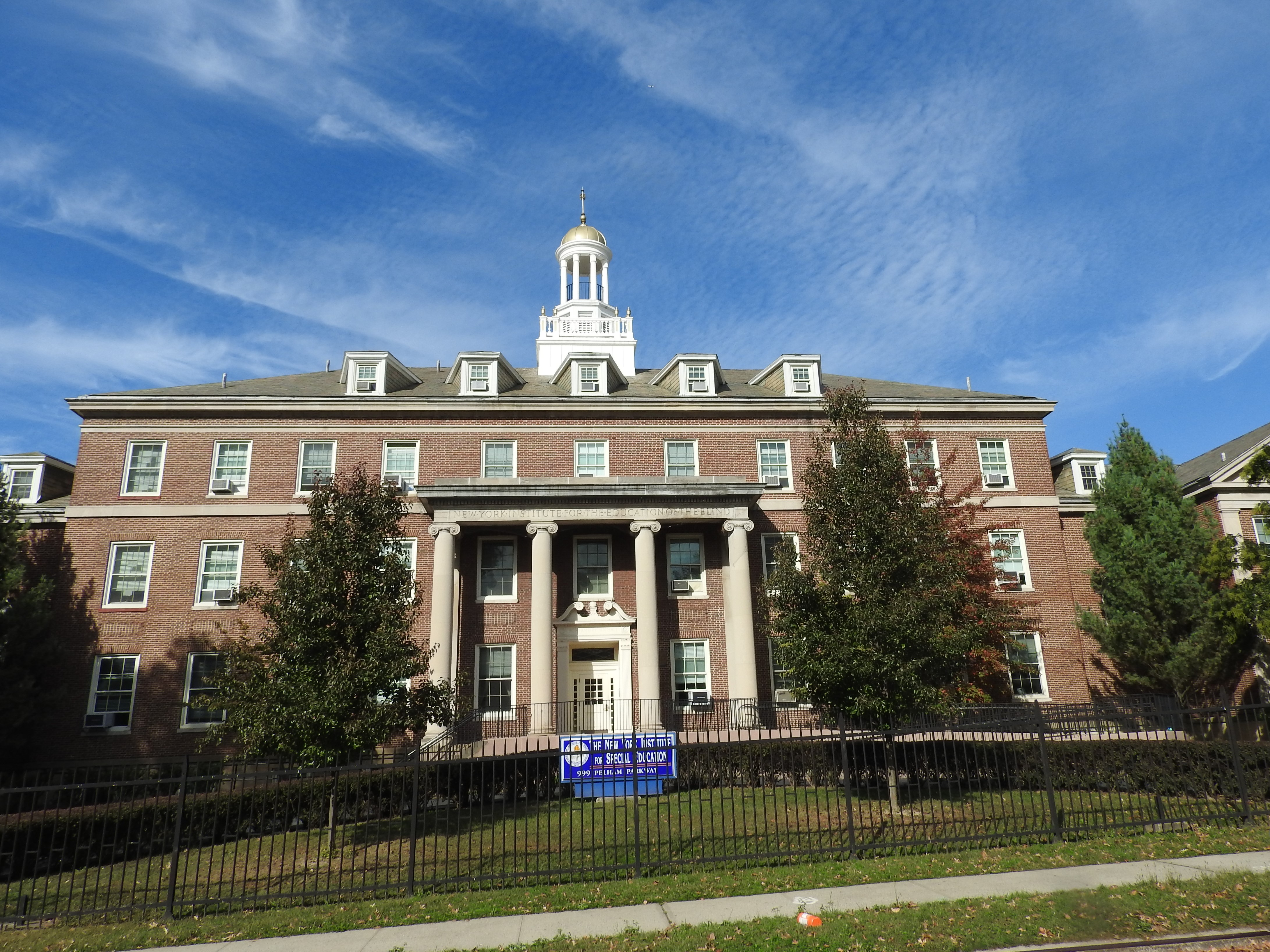 Looking north during Tour de Bronx